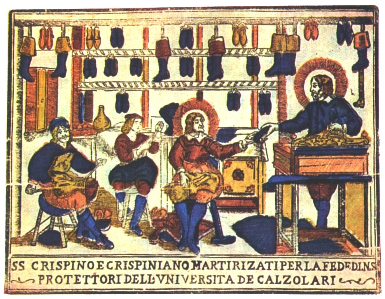 Saints Crispino e Crispiniano printed by Remondini - Bassano - Italy